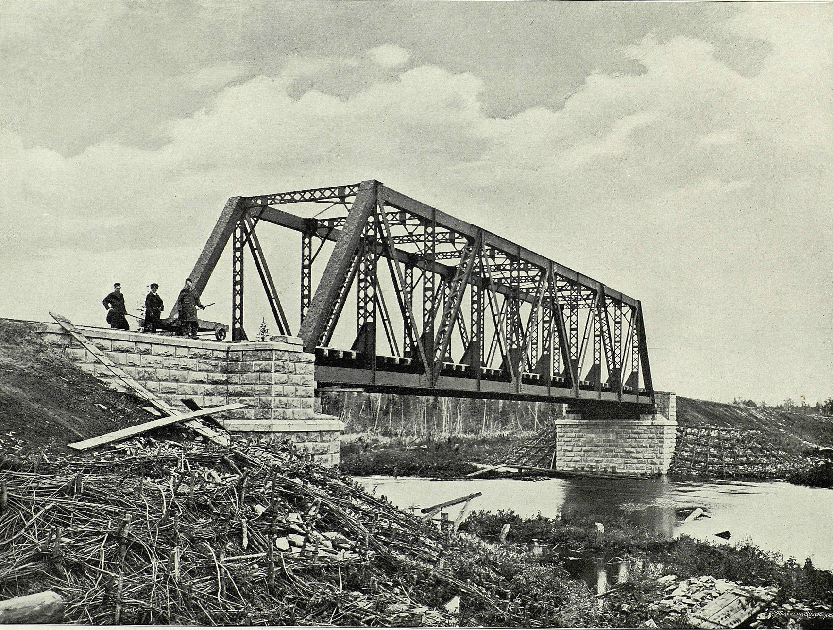 «Great Path - Views of Siberia and Great Siberian Railway» book, 1899